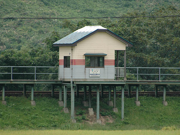 Yoshizawa Station, on Yuri Kōgen Railway, Yurihonjō, Akita, Japan